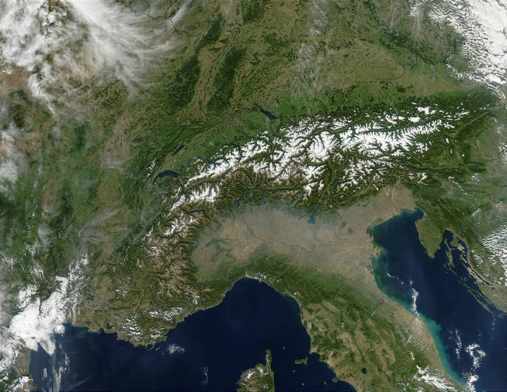 Alps - satellite view (NASA, German Wikipedia) Source: an original image from NASA Visible Earth